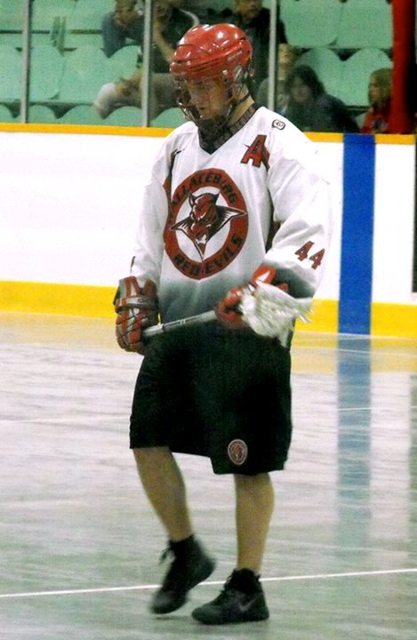 These images of Ontario Junior B Lacrosse Action action during the 2014 season are taken by Devan Mighton.